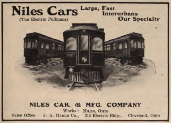 Niles Car & Manufacturing Company ad from 1908.